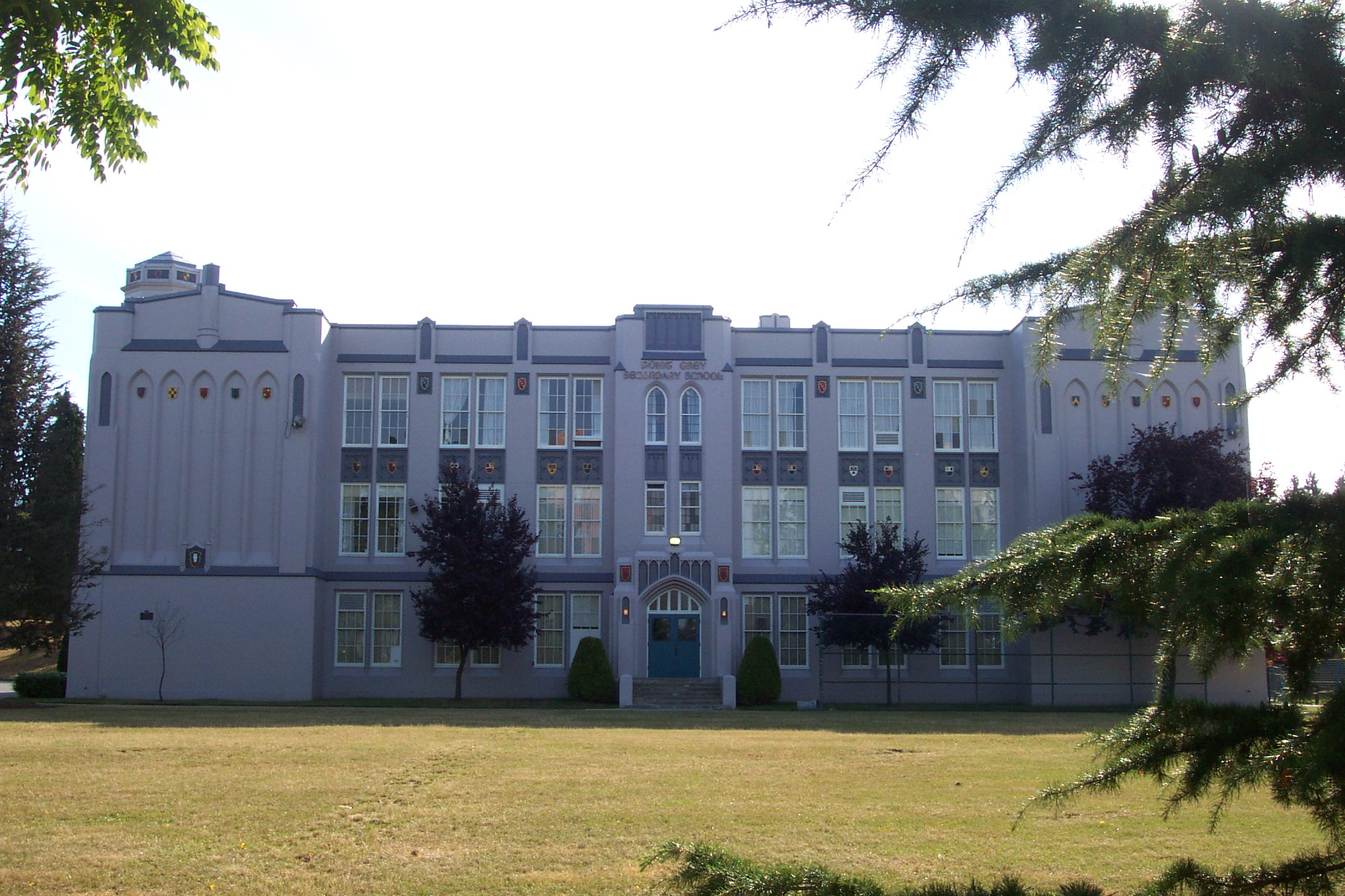 Exterior of Point Grey Secondary School, Vancouver.